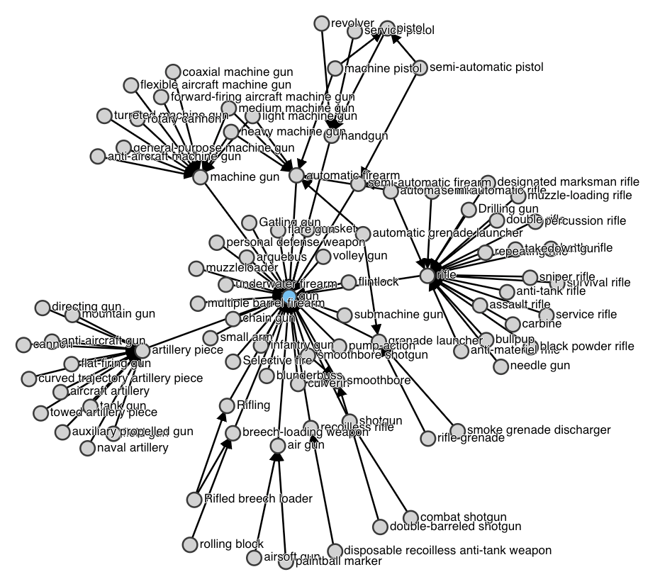 Wikidata ontology for gun - using Wikidata Graph Builder, with "gun," traversal property "subclass of" and 2 iterations, limit 112